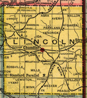 Image is from a 1905 map of Oklahoma from Library of Congress and is the public domain.